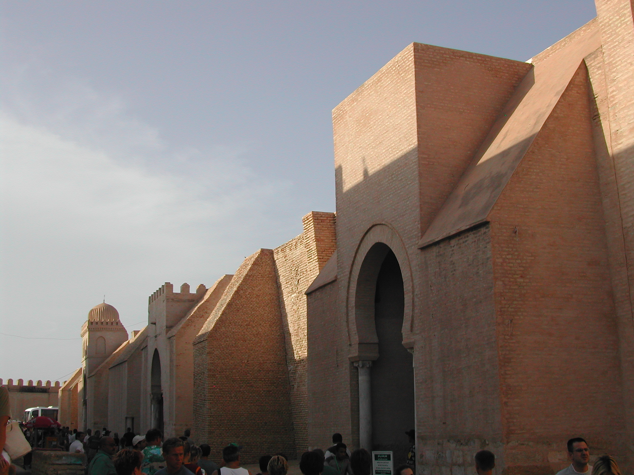 Side wall with gates of the Great Mosque of Kairouan — Tunisia.